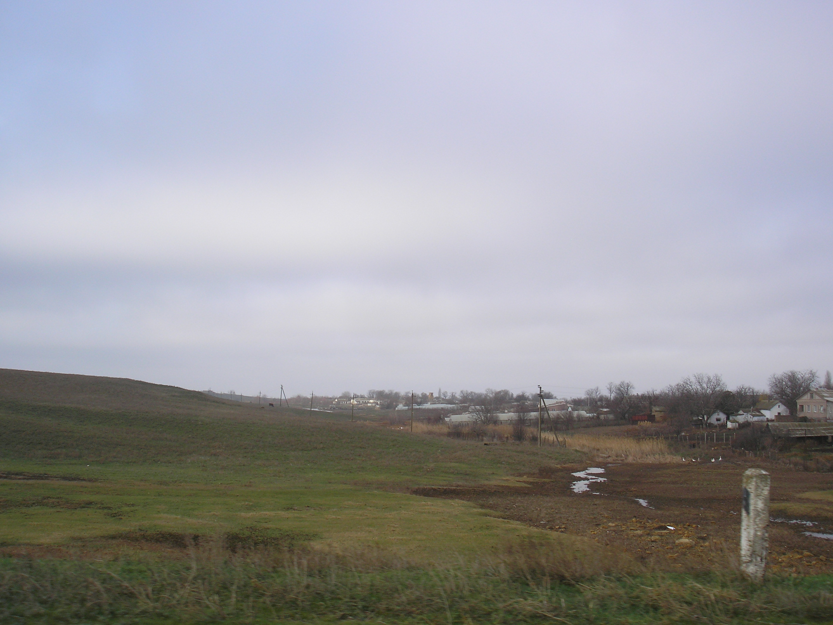 Village Shelkovichnoe, Saki district, Crimea.